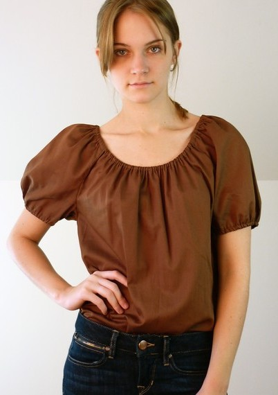 1970's vintage blouse, with an elasticized neckline and short balloon sleeves. Made of a thin cotton/poly blend. It can be worn on, or off, the shoulders.